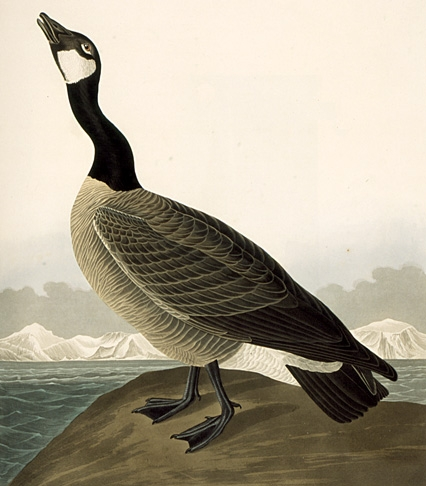 Hutchins's Barnacle Goose